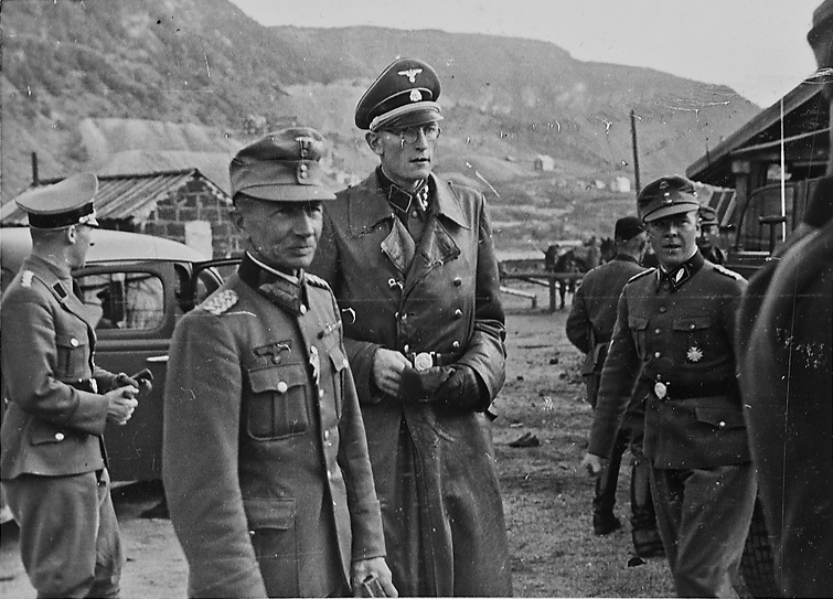 Image from "Photo Album from Terboven's journey to Nothern Norway and Finland 10–27 July 1942" (Mit dem Reichskommissar nach Nordnorwegen und Finnland 10. bis 27. Juli 1942), 375 images uploaded to www. by Riksarkivet (National Archives of Norway) 2012. See scanned album here